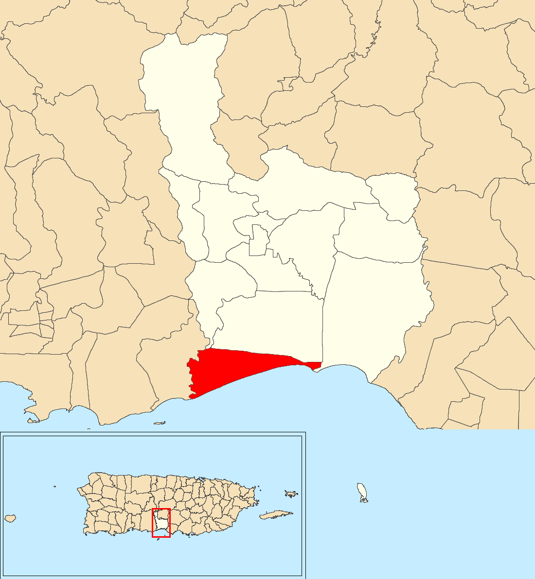 Capitanejo, Juana Díaz, Puerto Rico locator map